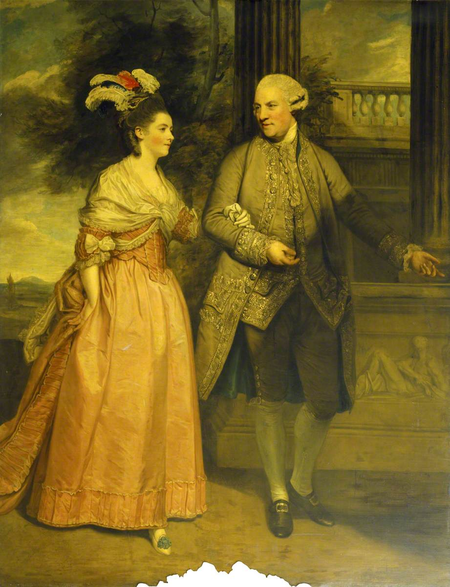 Reynolds, Joshua; Henry Loftus (1709-1783), 1st Earl of Ely, and His Wife Frances Monroe (d.1821), Countess of Ely; National Trust, Upton House